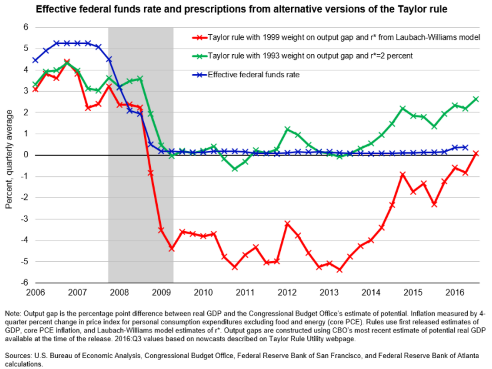 This chart shows effective federal funds rate and prescriptions from alternate versions of the Taylor rule